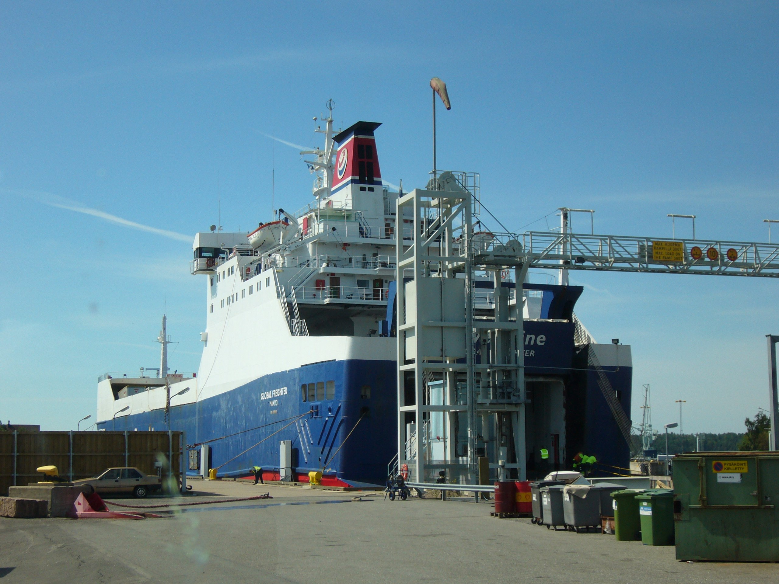 Finnish RoRo cargo ship M/S Global Freighter in Turku, Finland.